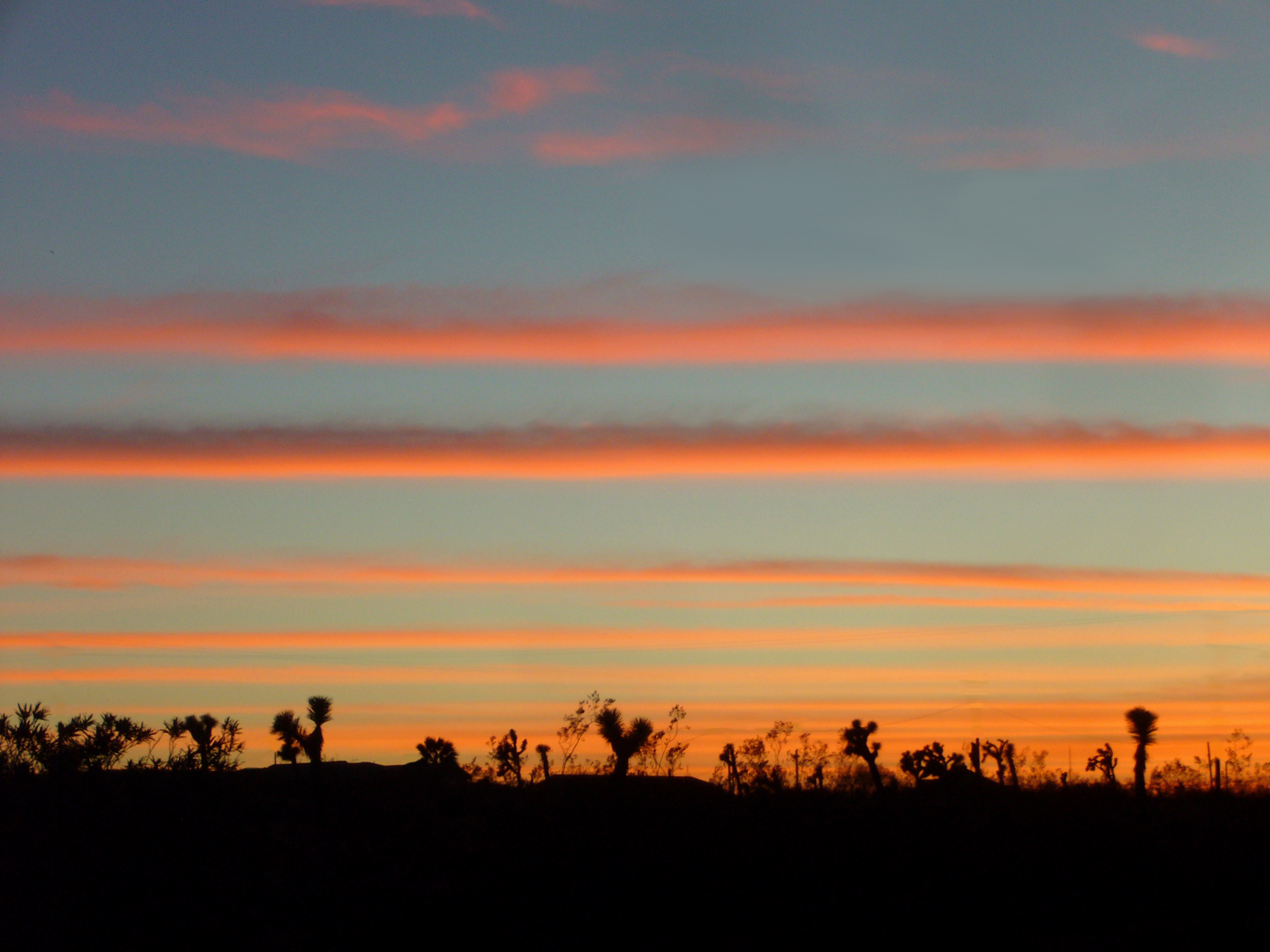 Extreme Cloud Confluence at twilight in the Mojave